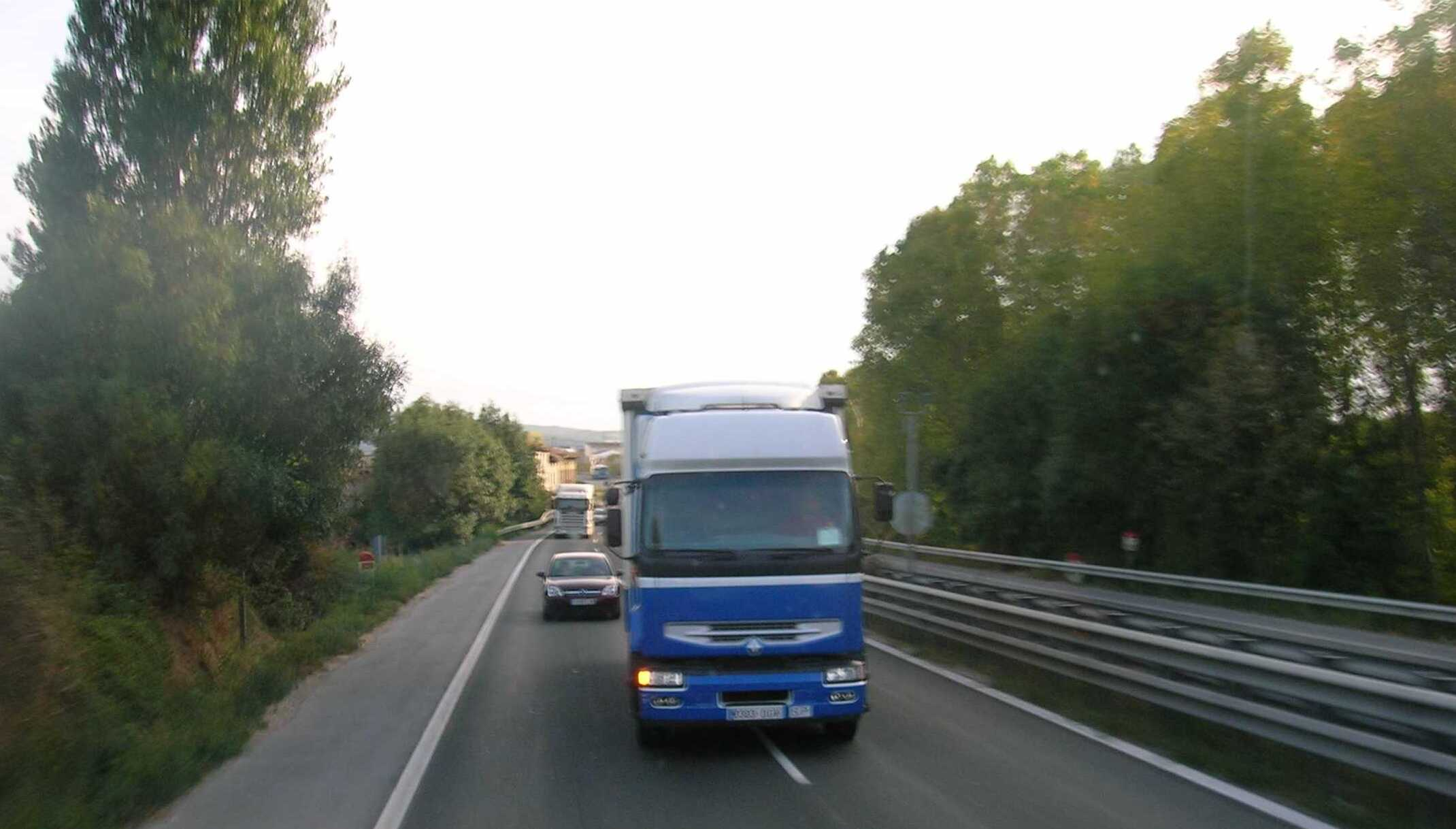 Nacional 1 road through the enclave de Treviño, province of Burgos, Spain.